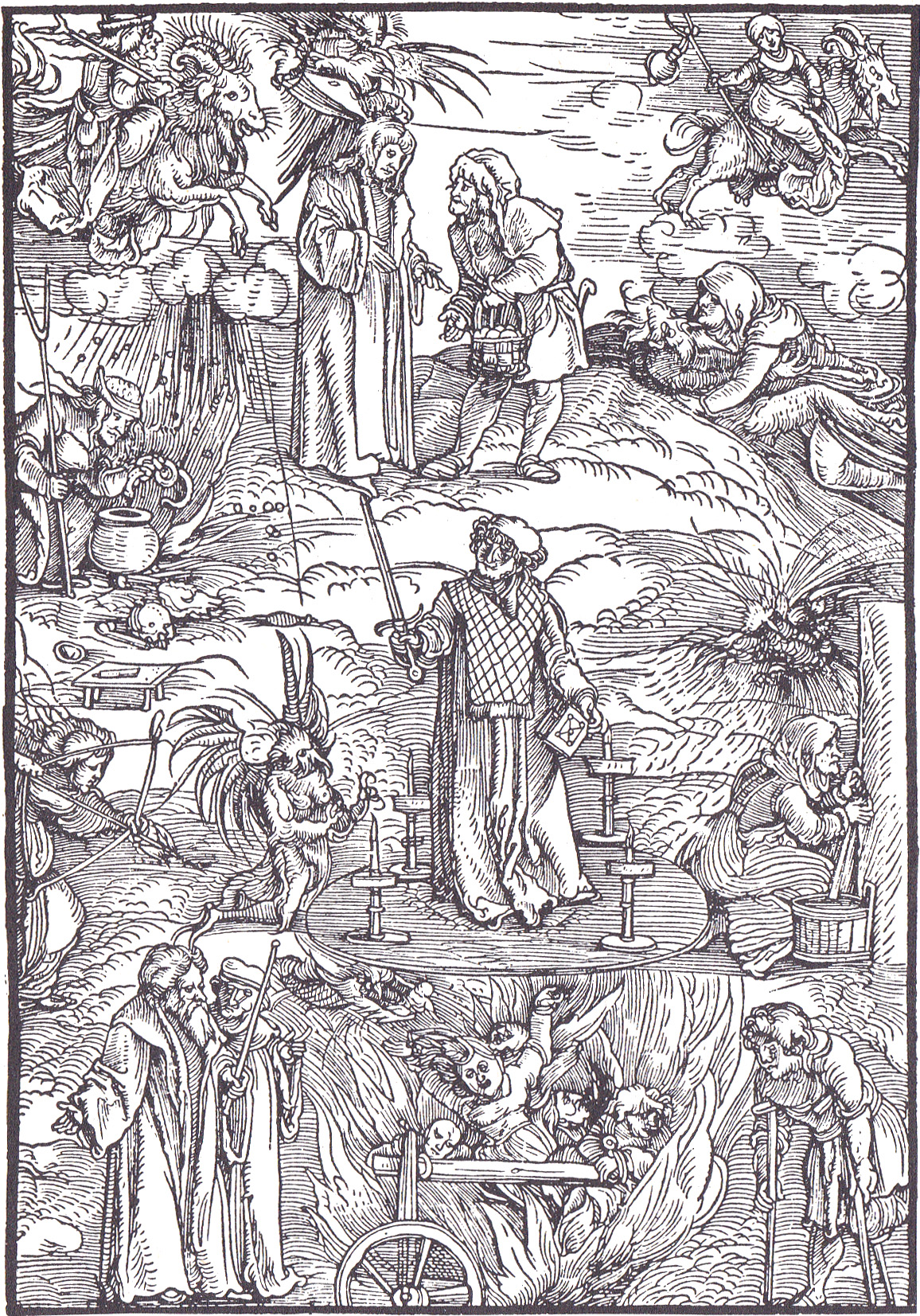 Sorcery and witch craze, by Hans Schäufelein.